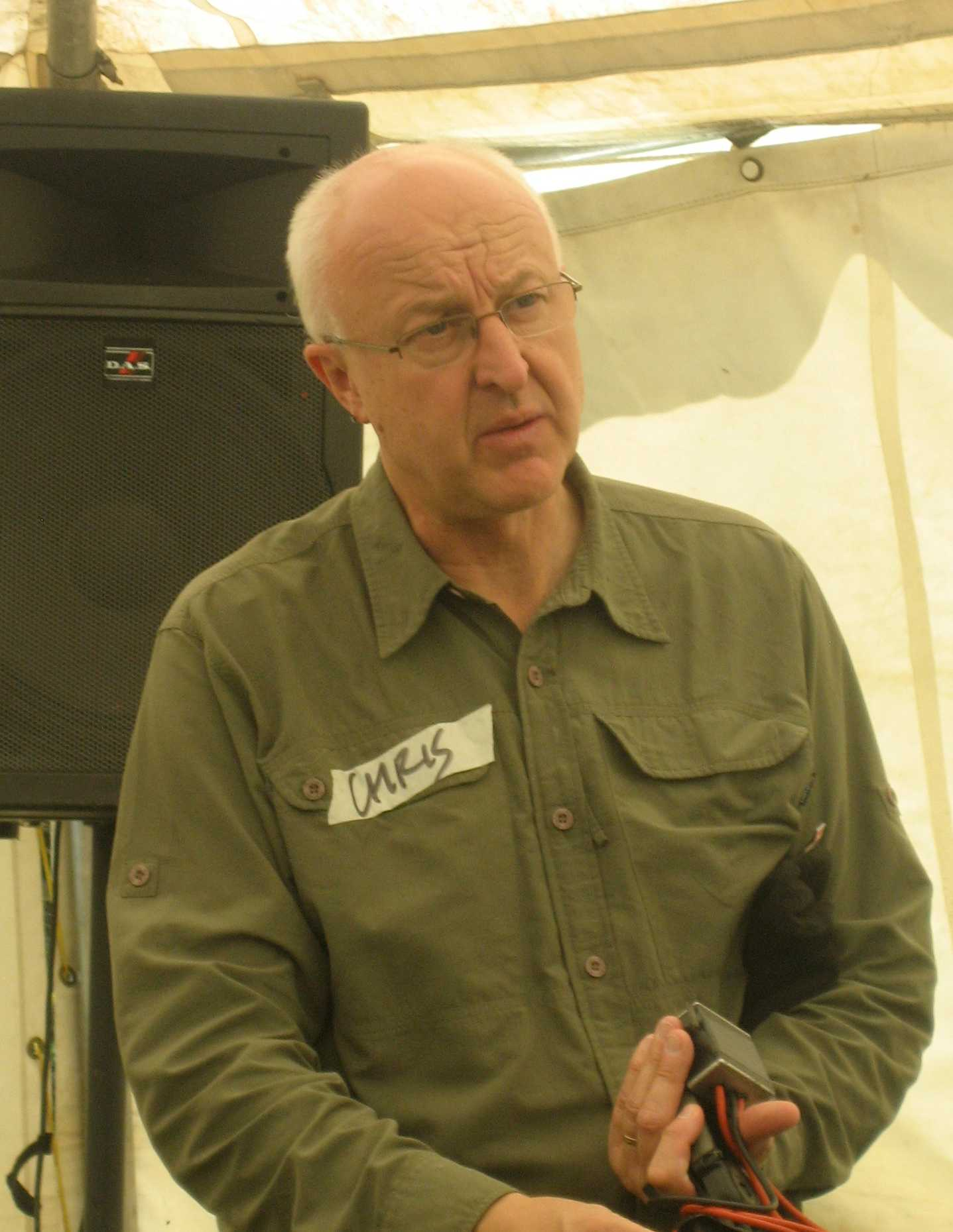 chris watson workshop @ wired lab